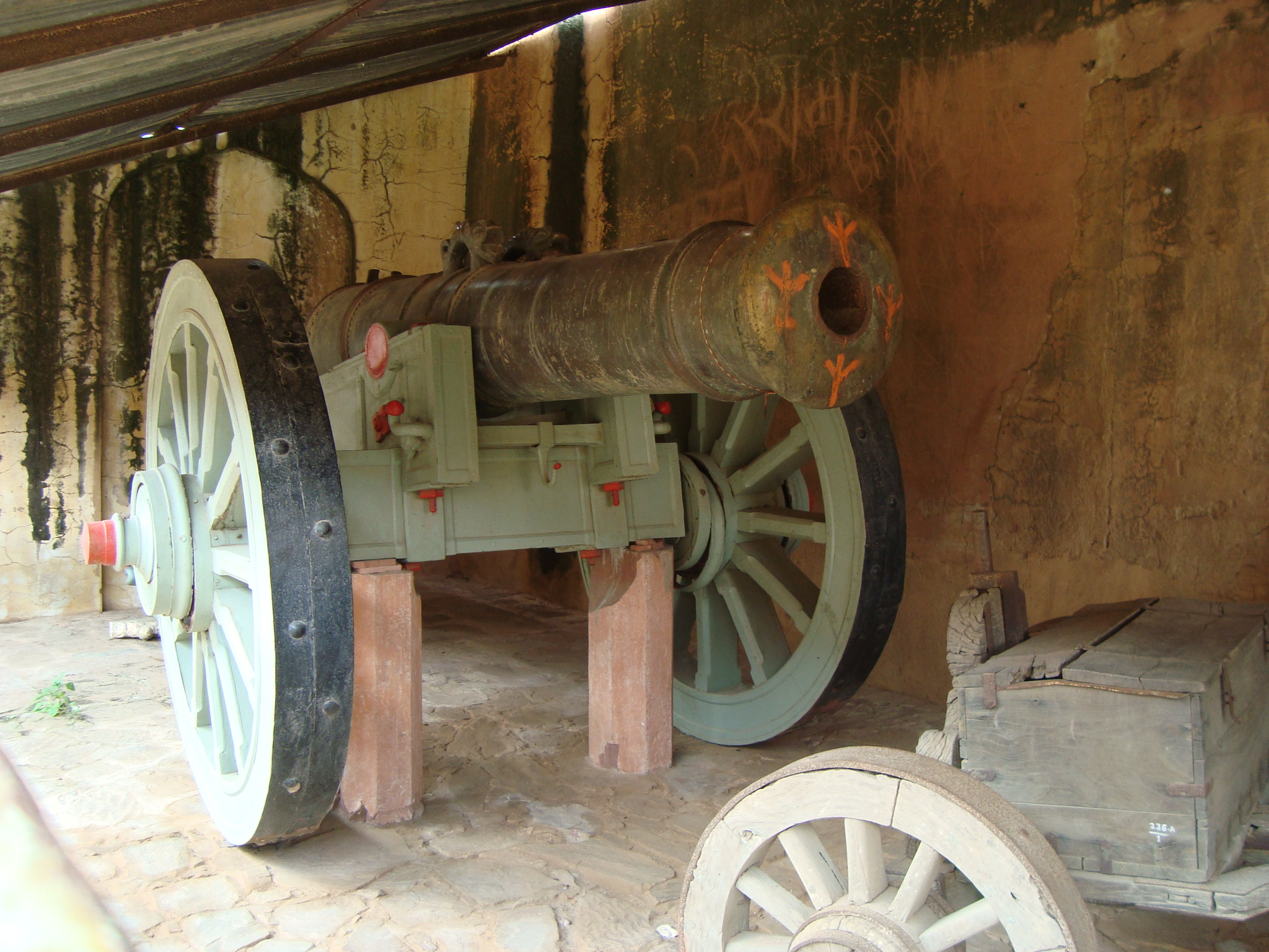 Banjrang Cannon at Jaigarh Fort, Jaipur, India